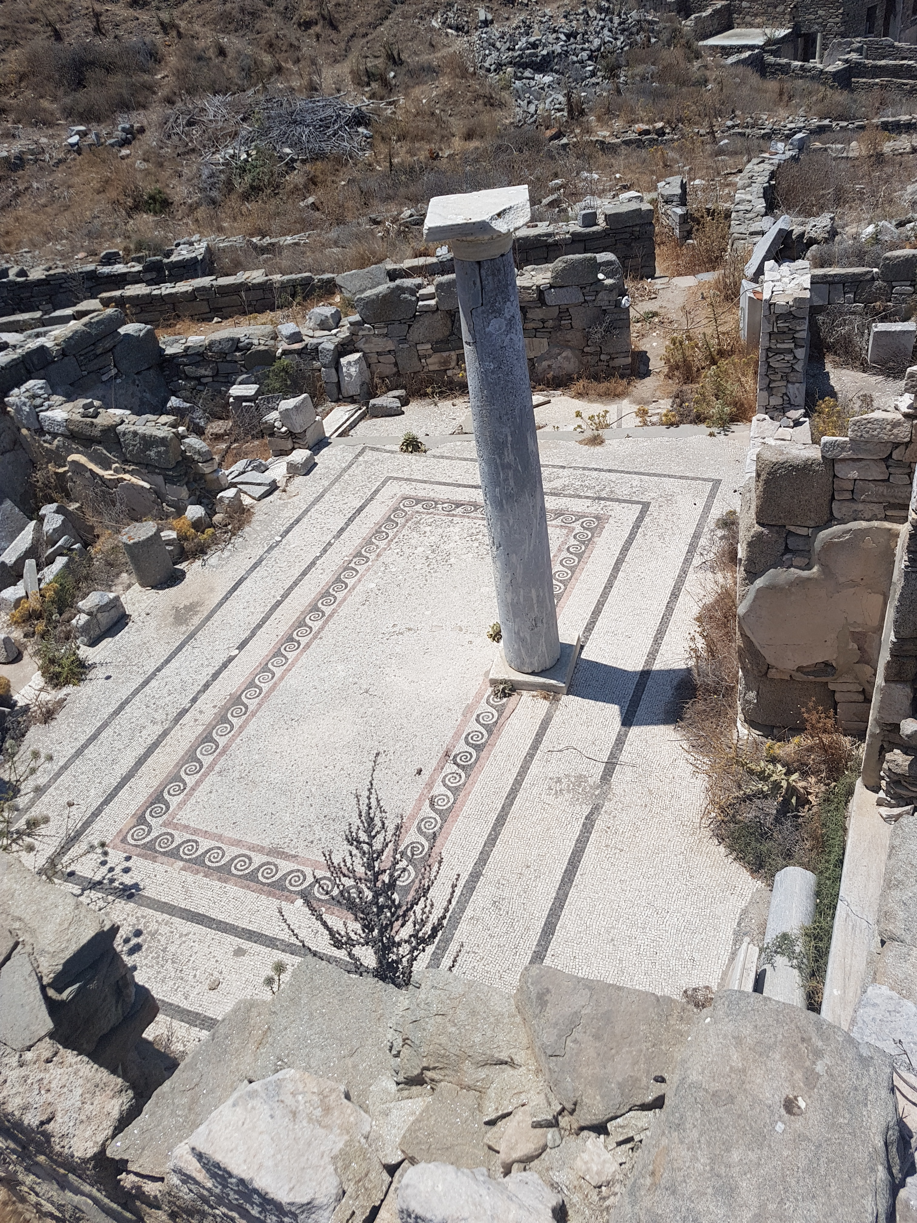 This is a photography of Natura 2000 protected area with ID GR4220027